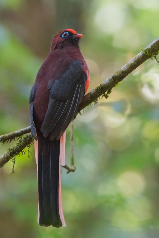 A Ward's Trogon at Eaglenest Wildlife Sanctuary, Arunachal Pradesh, India.